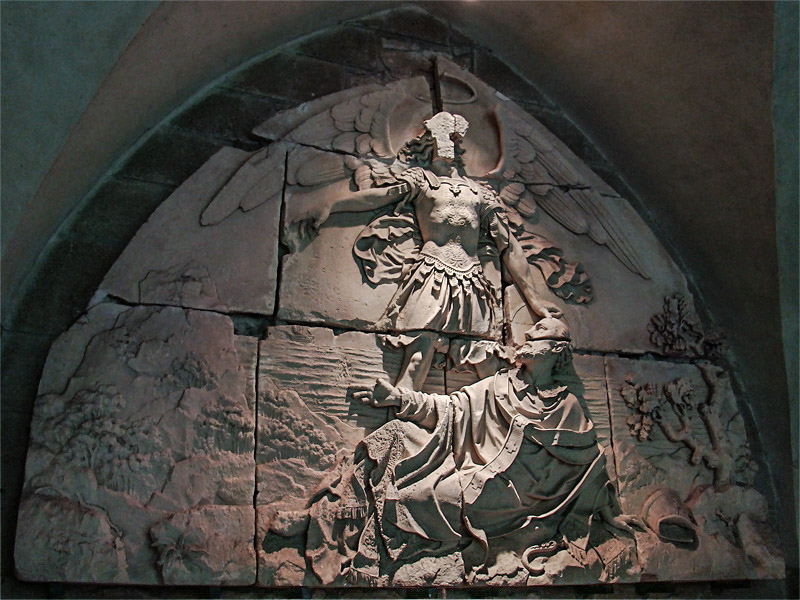 Abbey of Mont-Saint-Michel, Manche, Normandie, France. Saint Aubert, bishop of Avranches in the 8th Century, saw in dreams Archangel Michael, who ordered him to build a sanctuary on Mount Tomb.